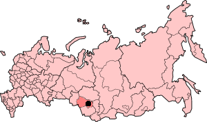 Location map of Novosibirsk within Russia.